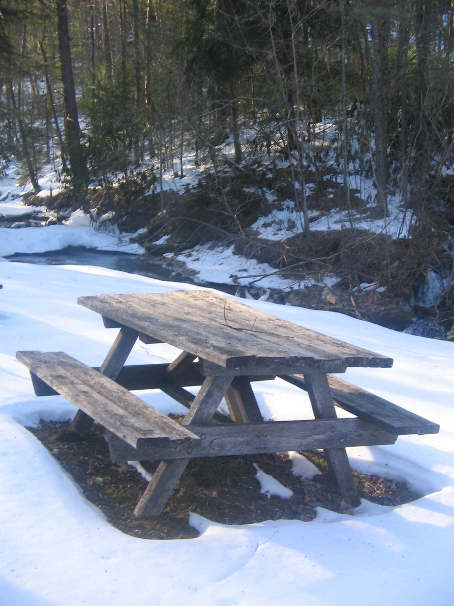 Picnic Table and Upper Pine Bottom Run in background, at Upper Pine Bottom State Park, Cummings Township, Lycoming County, Pennsylvania, USA